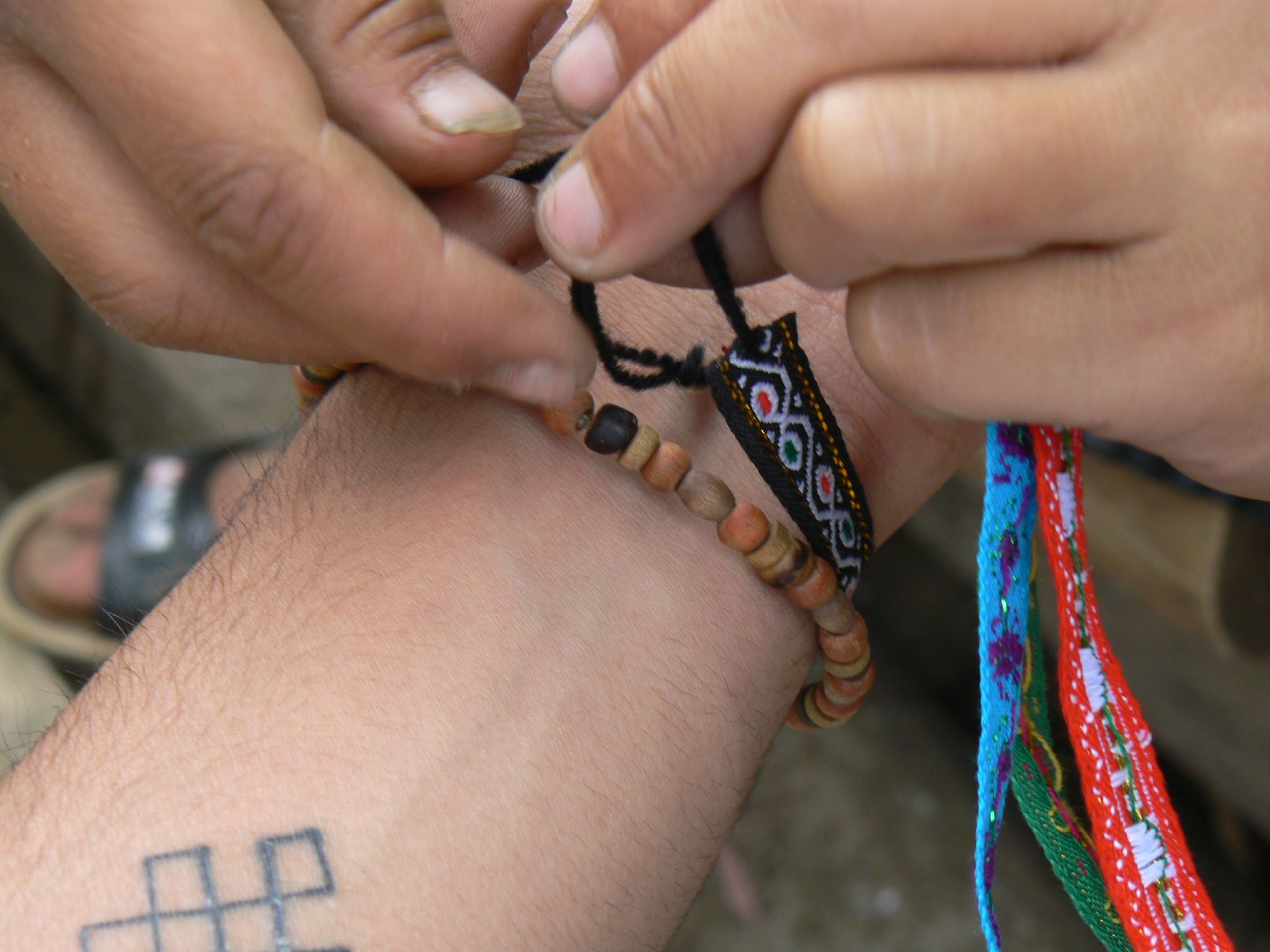 Original caption: Ne ties a friendship bracelet on me, Sapa.